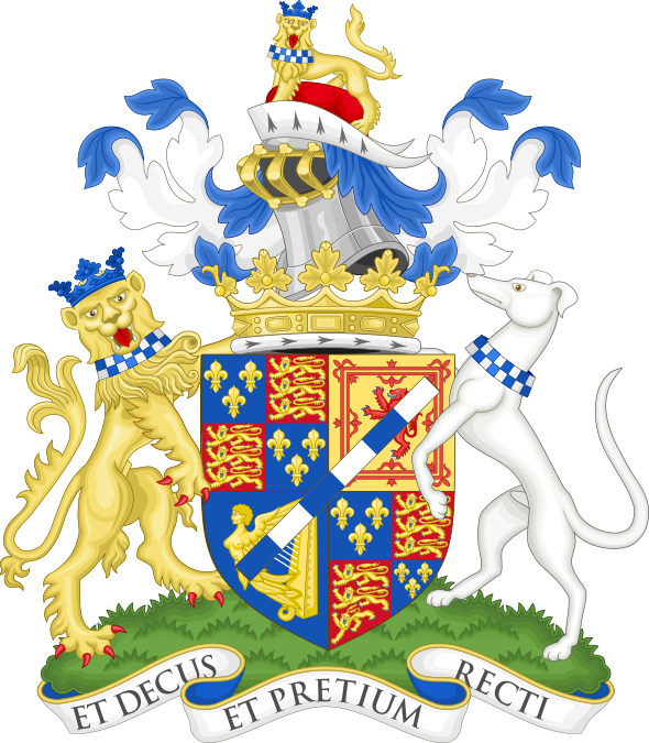 coat of arms of the duke of Grafton Arms. The Royal Arms of Charles II, viz Quarterly: 1st and 4th, France and England quarterly; 2nd, Scotland; 3rd, Ireland; the whole debruised by a Baton sinister compony of six pieces Argent and Azure Crest. On a Chapeau Gules turned up Ermine a Lion statant guardant Or ducally crowned Azure and gorged with a Collar counter-compony Argent and of the fourth. Supporters. Dexter: a Lion guardant Or ducally crowned Azure; Sinister: a Greyhound Argent, each gorged with a Collar counter-compony Argent and Azure. Motto. Et Decus Et Pretium Recti (The ornament and recompense of virtue). Cracroft's Peerage